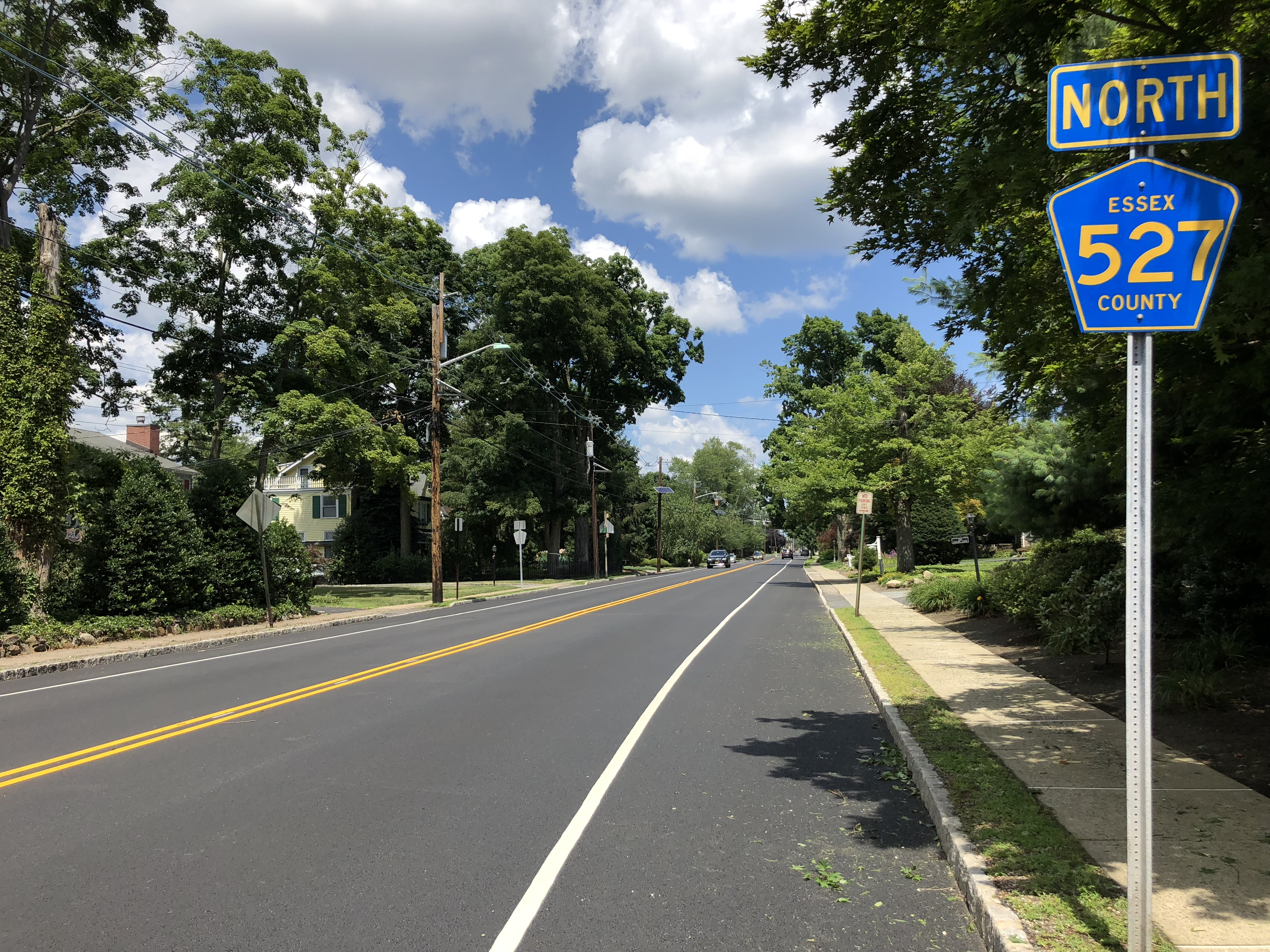 View north along Essex County Route 527 (Roseland Avenue) just north of Essex County Route 633 (Runnymede Road) and Forest Way in Essex Fells, Essex County, New Jersey